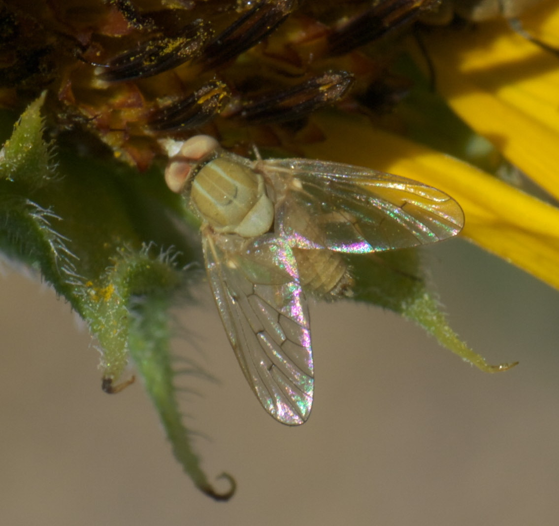 Poecilognathus, Family: Bee Flies, ID Confidence: 98